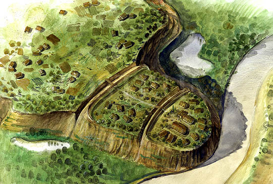 Graphical reenactment of the Dacian dava discovered at Popeşti, Giurgiu, Romania, potentially Burebista's capital Argedava.